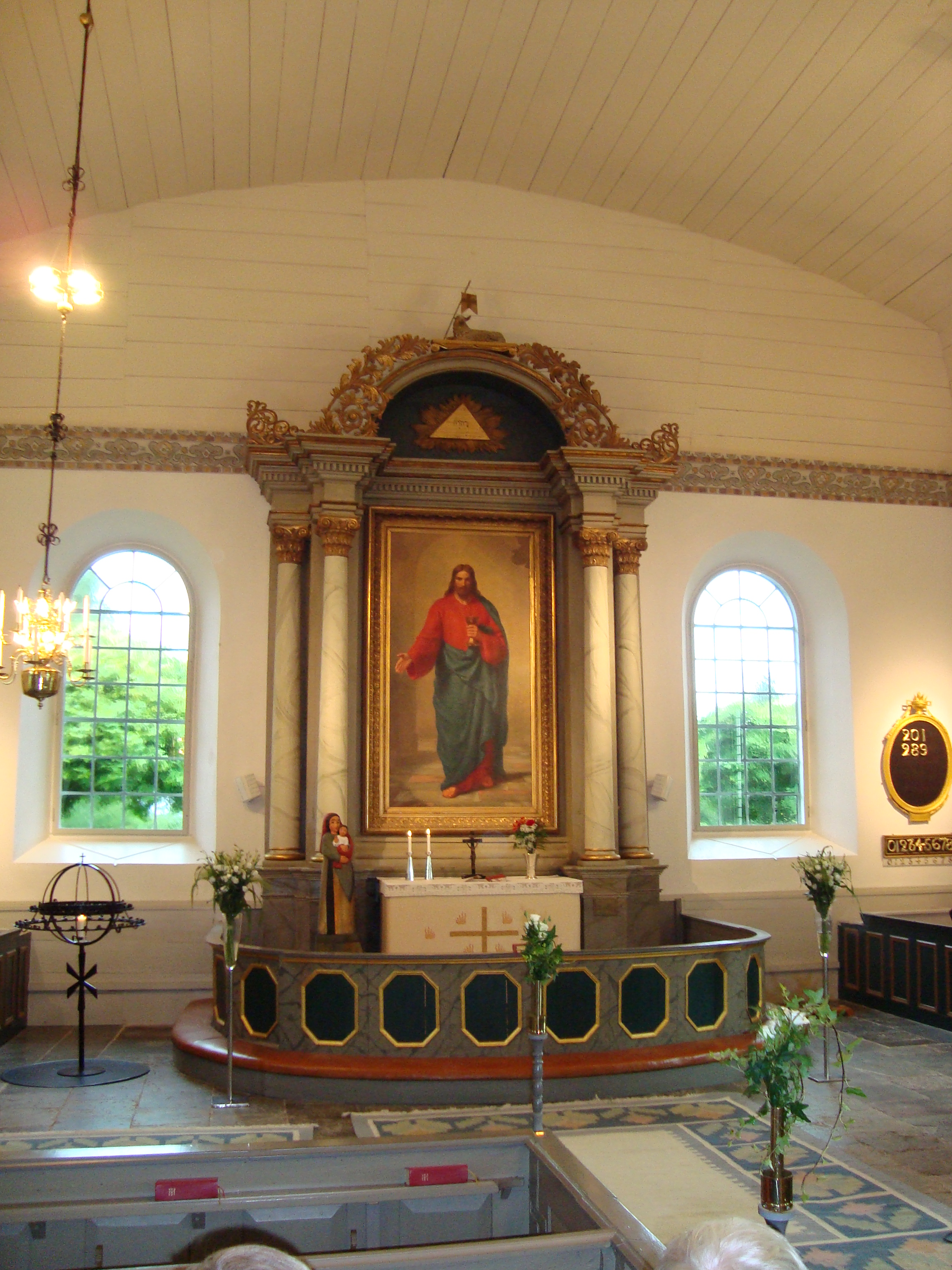 Altar, Landeryds kyrka, Diocese of Linköping, Sweden